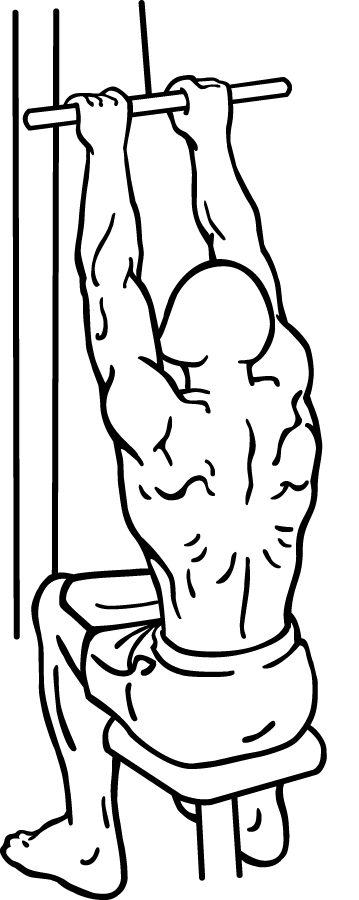 an exercise of upper back and biceps